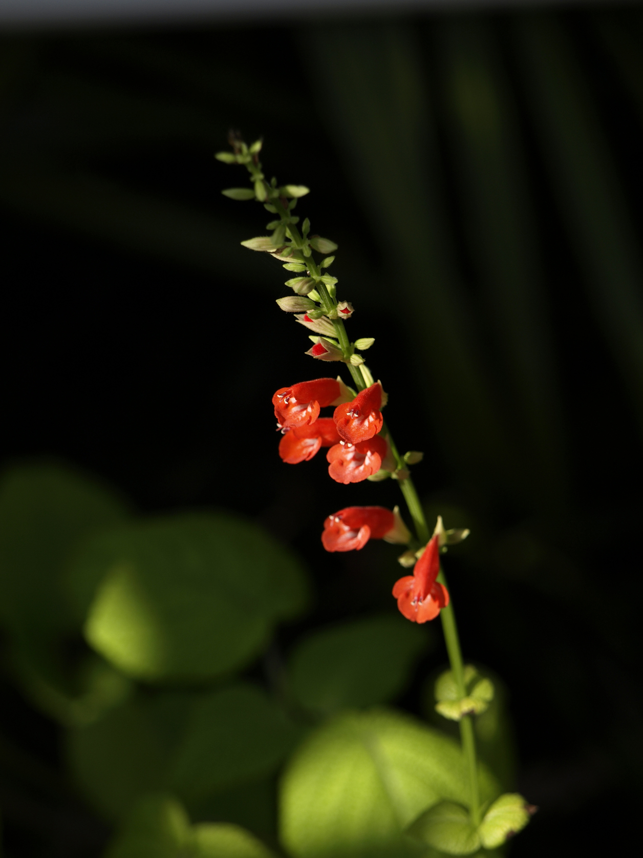 South Miami, Florida, USA.